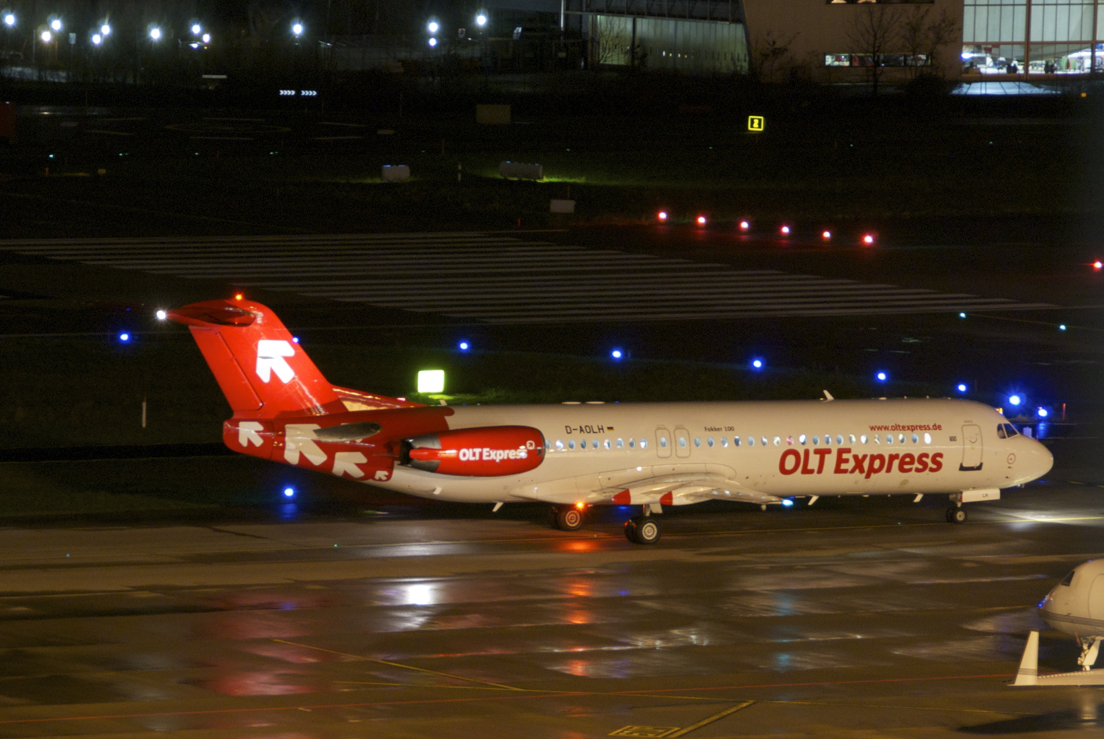 First flight: April 18, 1990...(c/n 11265) 28/08/1990 Sempati PK-JGC 07/07/1999 TAM PT-MQQ 24/06/2004 EU Jet EI-DFZ ceased operations July 27, 2005 19/07/2006 Canadian North C-GYNR 03/04/2008 OLT Express Germany D-AOLH